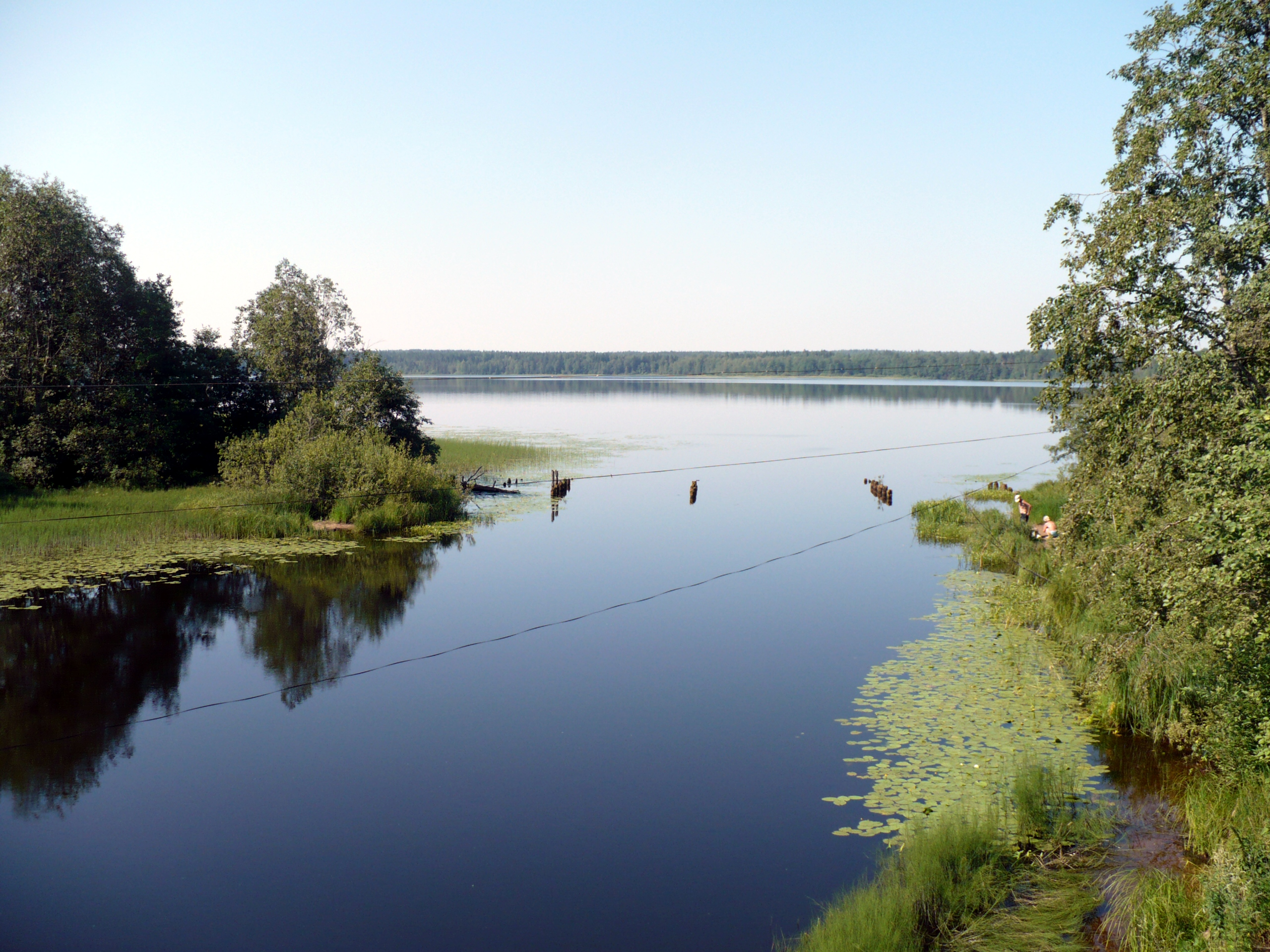 Source of Peretna River at Lake Peretno in Okulovskiy Rayon, Novgorodskaya Oblast, Russia